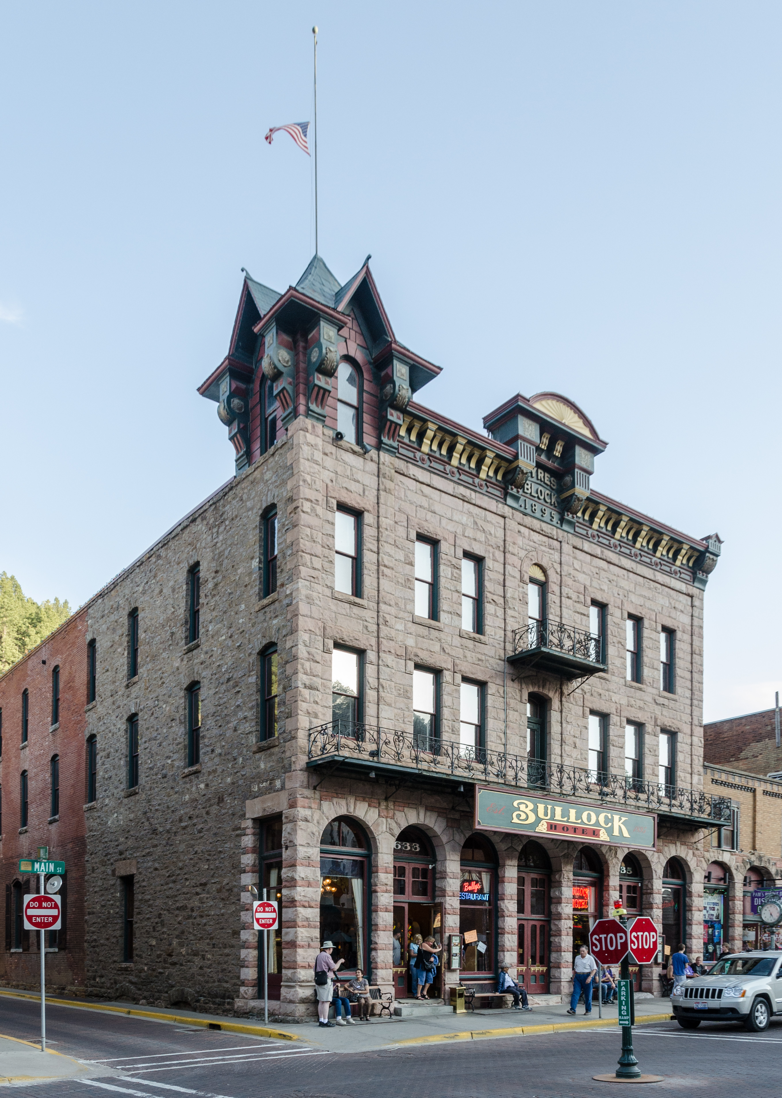 A north view of the Bullock Hotel building in Deadwood, South Dakota